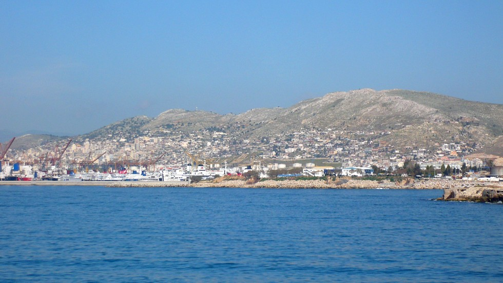 The picture depicts the city of Perama in Attica.